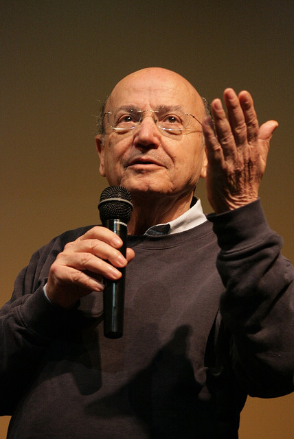 Greek director Theodoros Angelopoulos presenting his latest film, "The Dust of Time" in Athens, 26/4/2009.